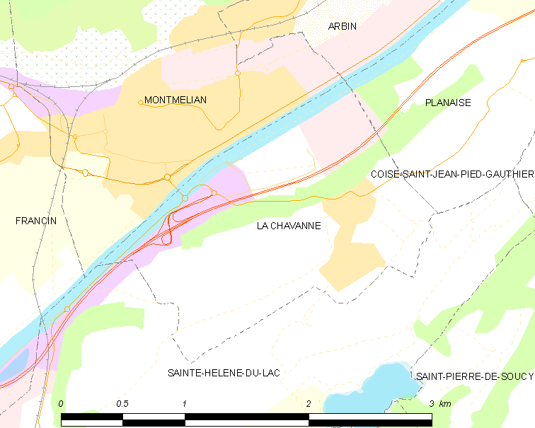 Map of French municipality